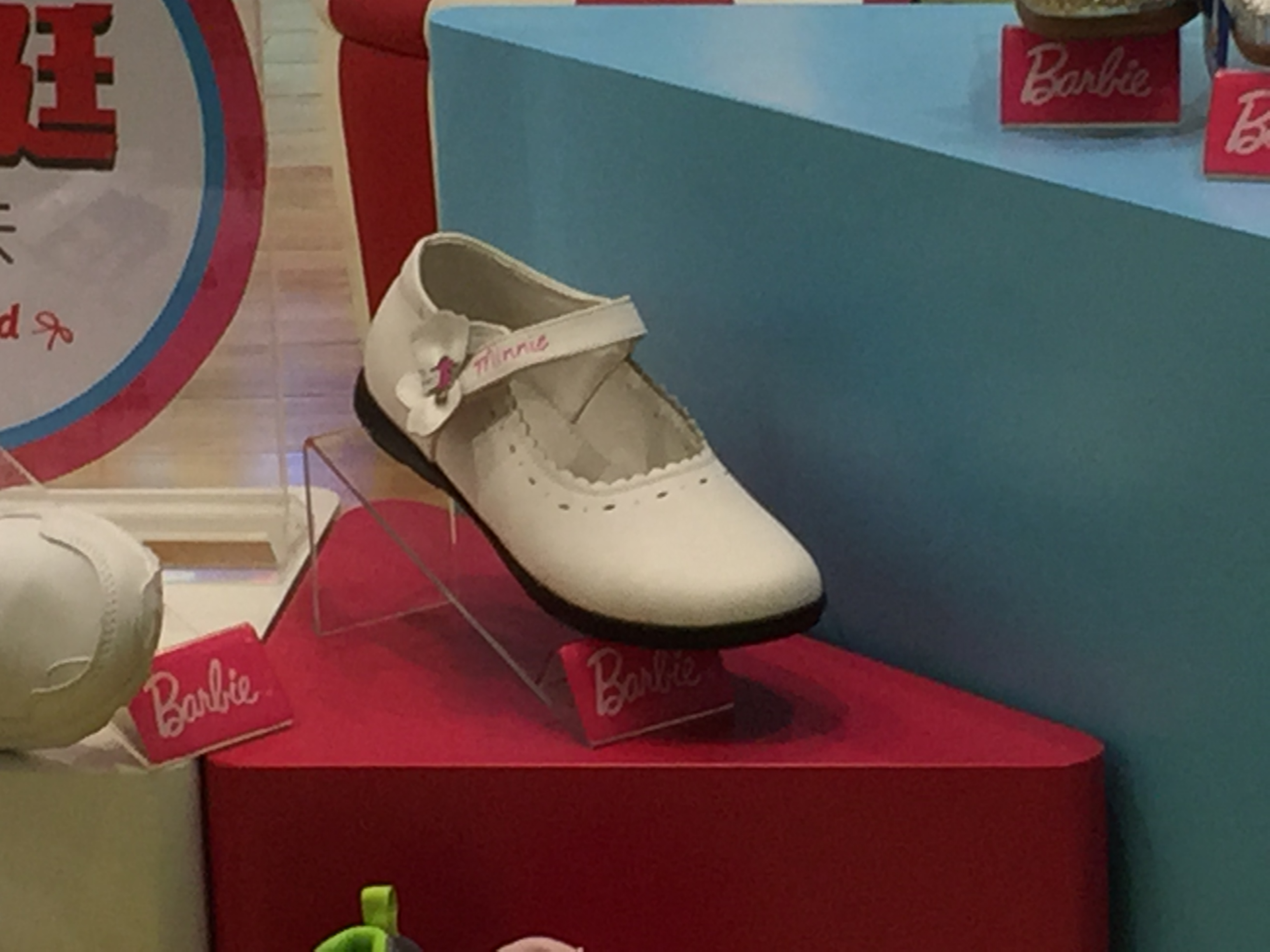 This type of shoe is regarded as a symbol of girlhood, and the "Princess Dreams" of many girls.